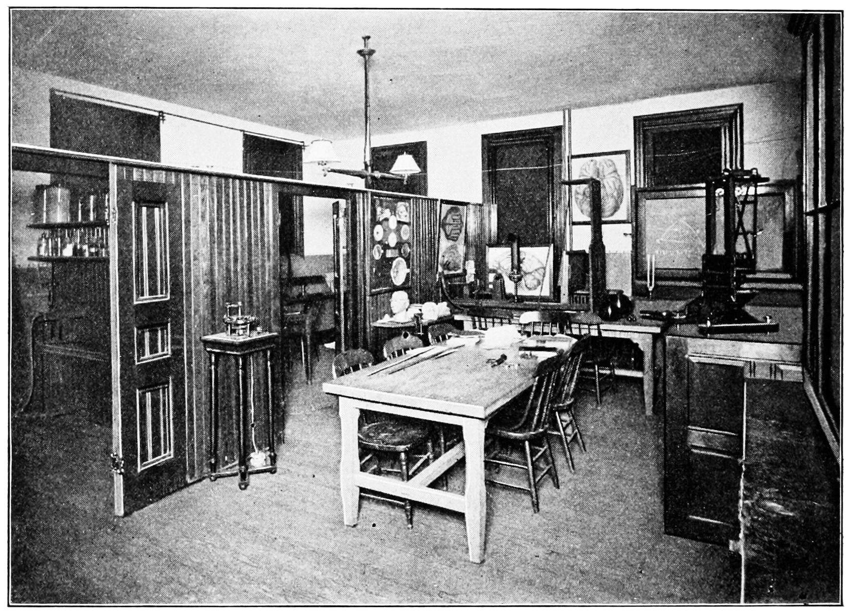 Laboratory of experimental psychology